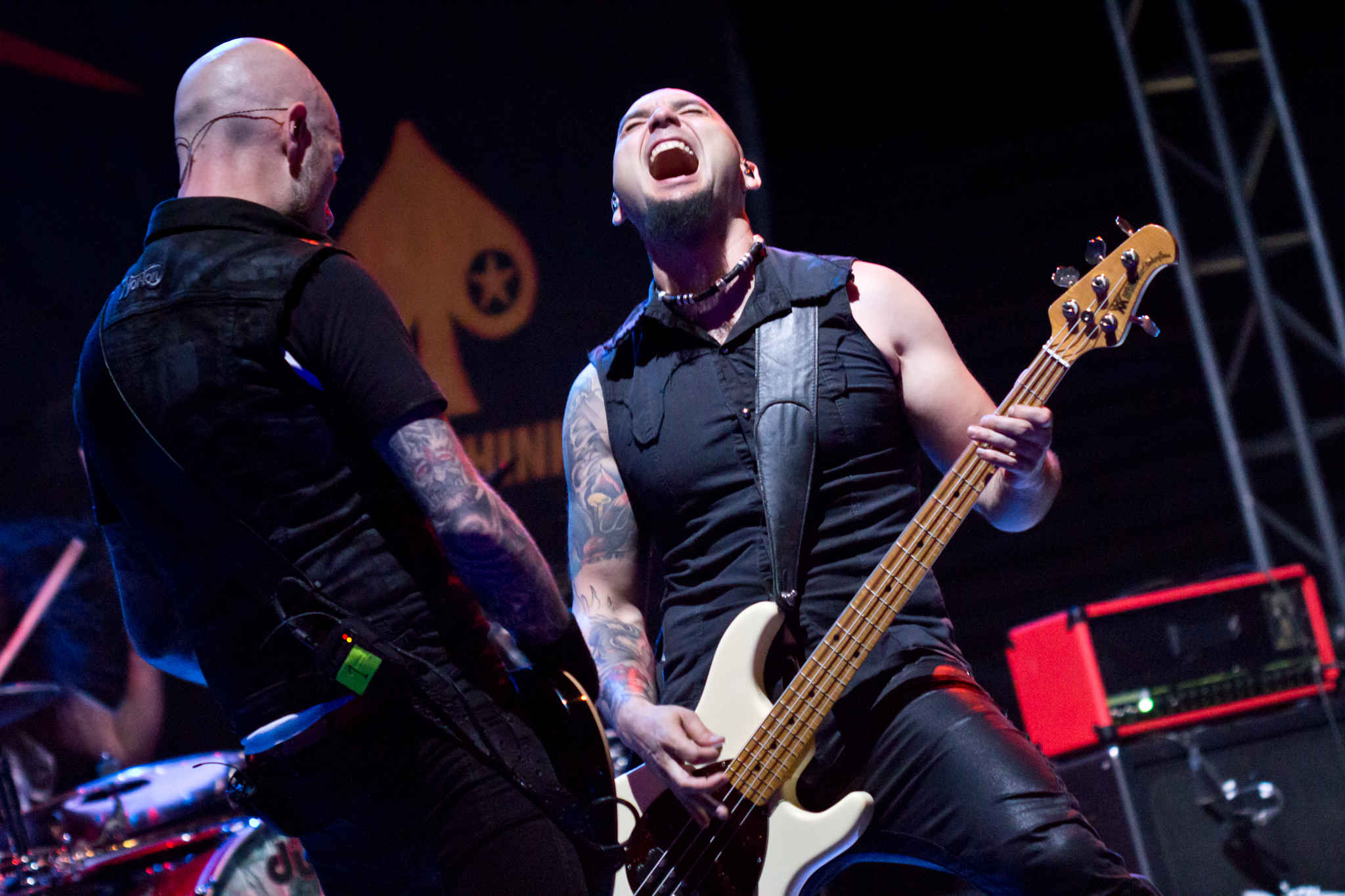 Spanish metal band Sôber at Asaco Metal Fest 2013, Parla, Spain.